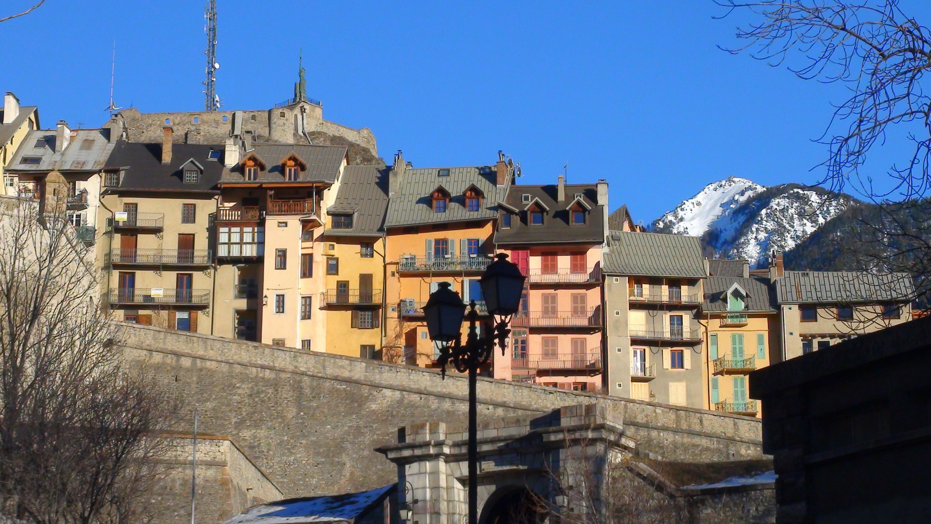 Briancon